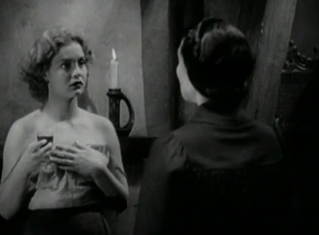 Screenshot of Nan Grey and Gloria Holden from the film Dracula's Daughter.